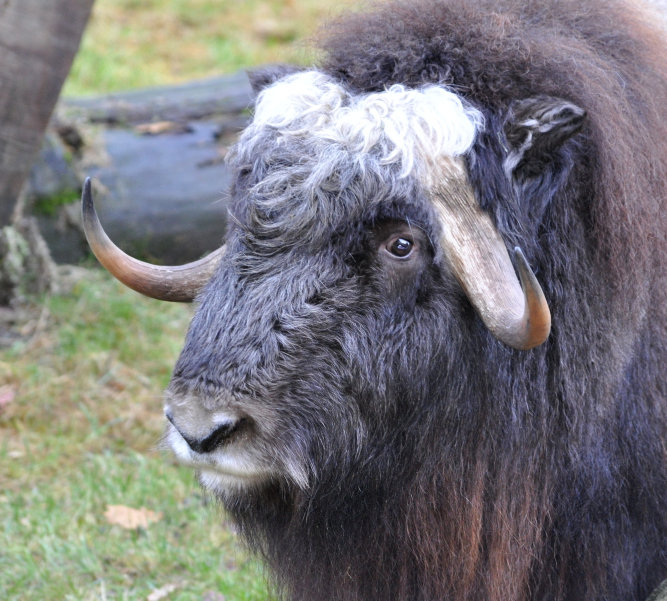 Muskox (Ovibos moschatus) in the Lüneburg Heath wildlife park, Germany.